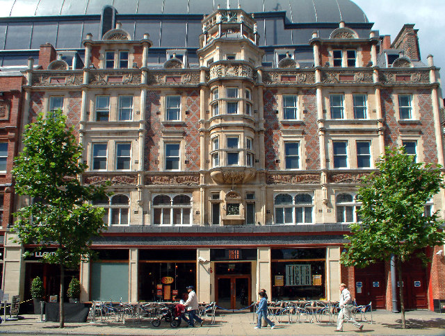 Grant's, High Street, Croydon. Grant's was formerly Croydon's leading department store. It was recently rebuilt, retaining just the facade (much of which collapsed and had to be painstakingly reassembled) as a multi-screen cinema and entertainments complex, the top of which can be seen looming into the sky above the Victorian brickwork.